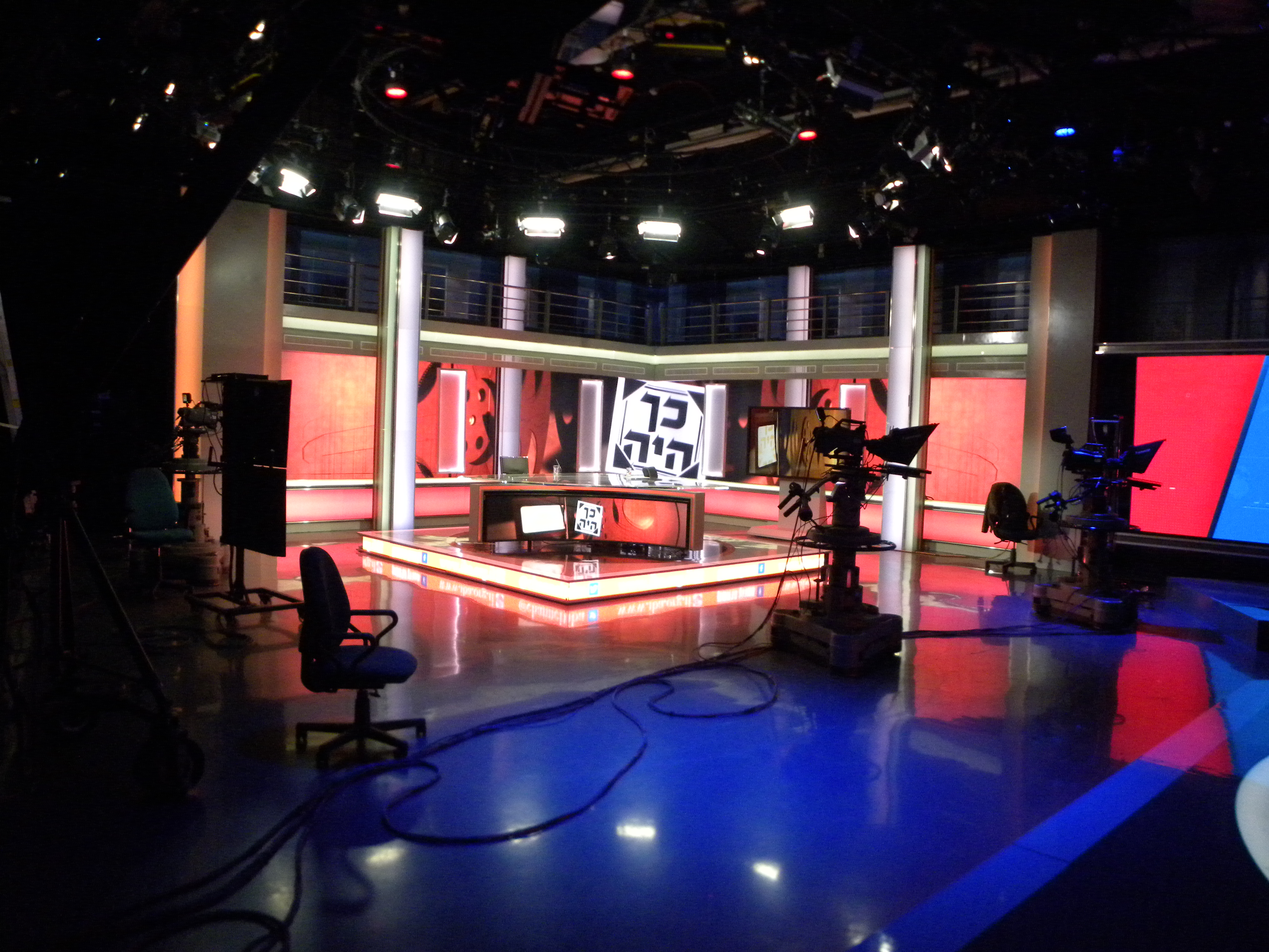 Israel Broadcasting Authority's Nakdi studio, in Romena, Jerusalem